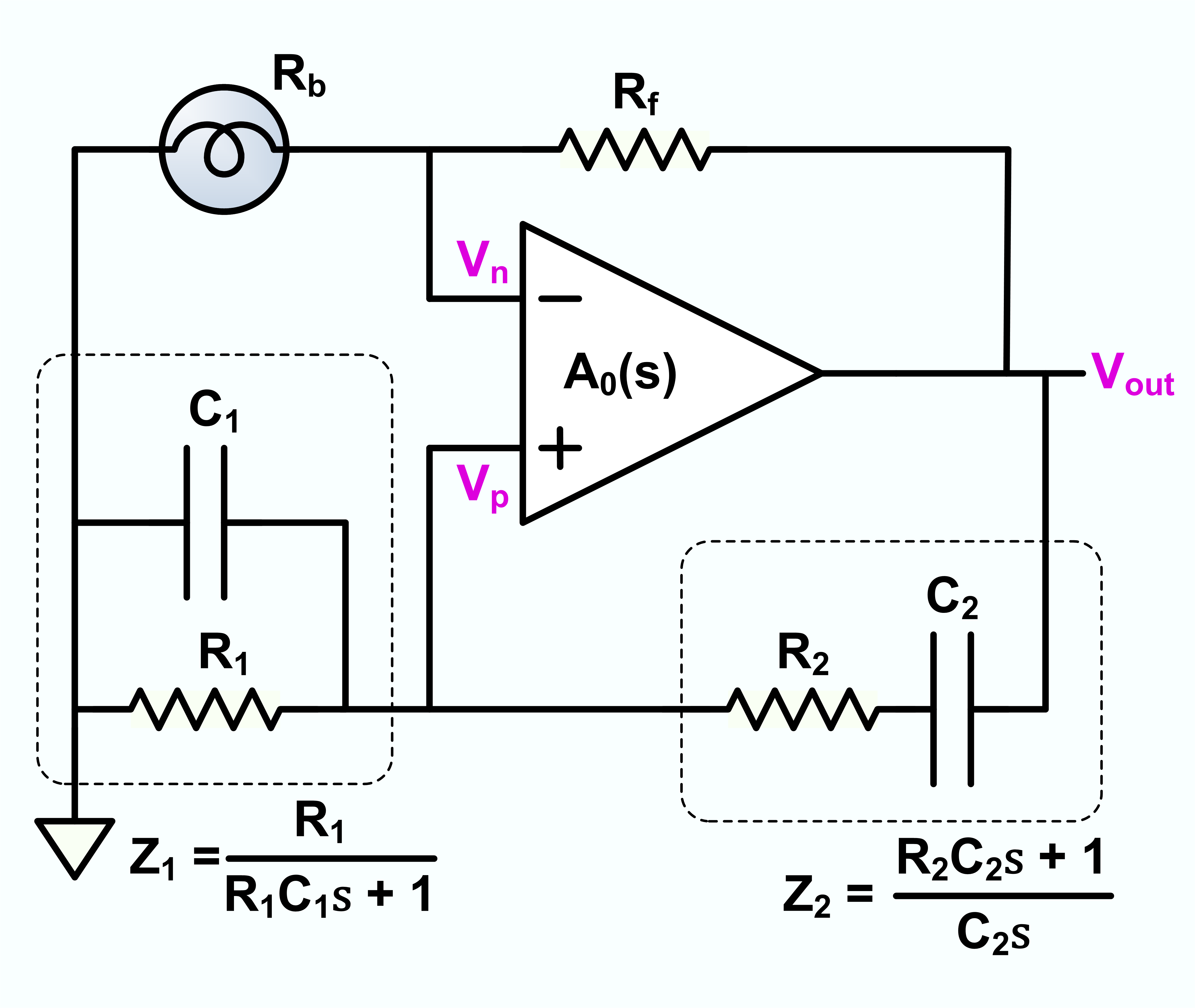 A simplified schematic of a Wien bridge oscillator with labels on each component.